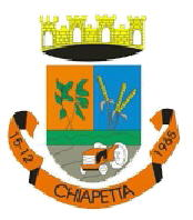 Coat of arms of the city of Chiapetta, Rio Grande do Sul, Brazil.